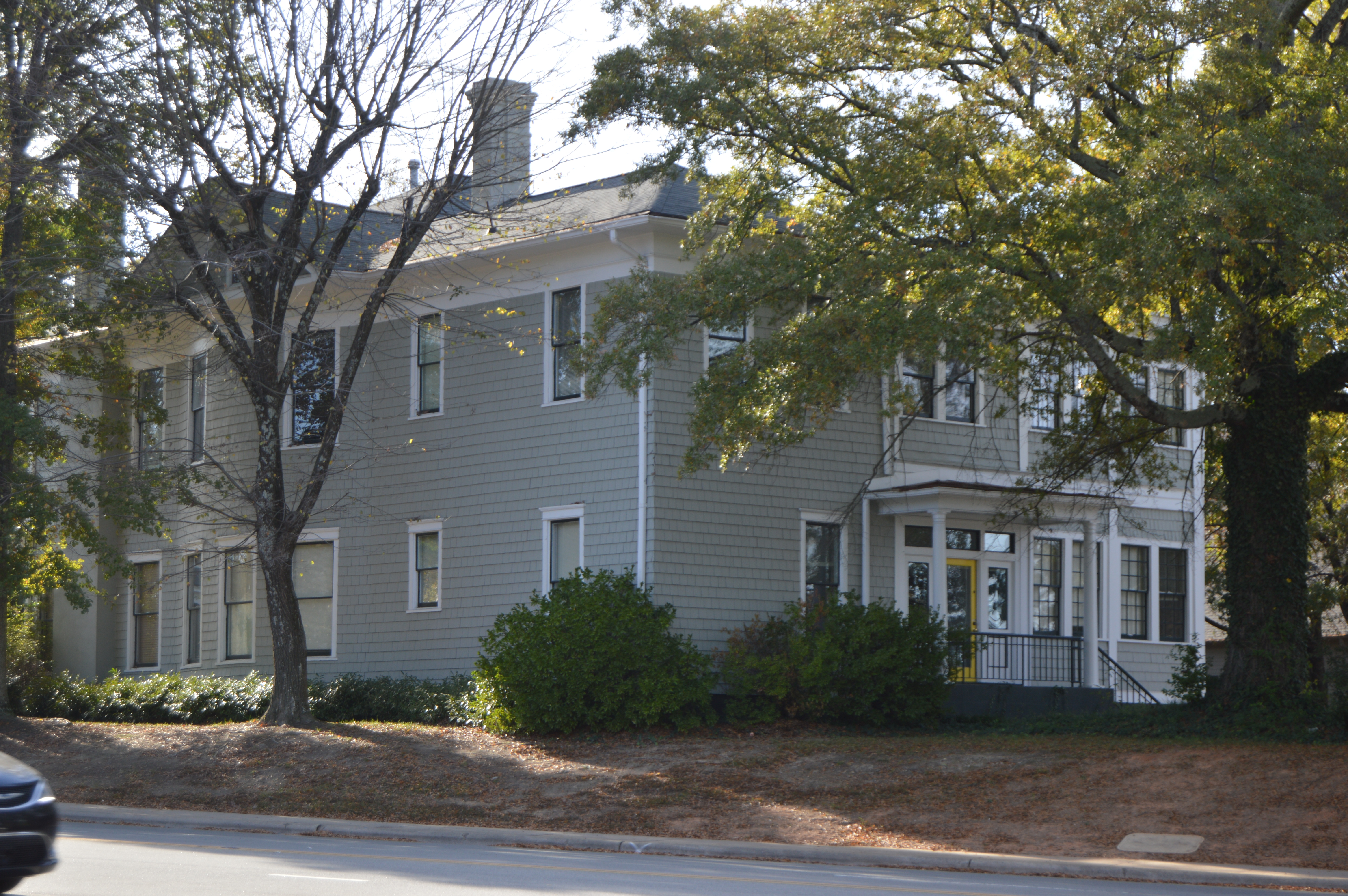 Front and eastern side of the Powe House (heavily modified since the mid-1980s), located at 1503 W. Pettigrew Street in Durham, North Carolina, United States. Built in 1900, it is listed on the National Register of Historic Places.